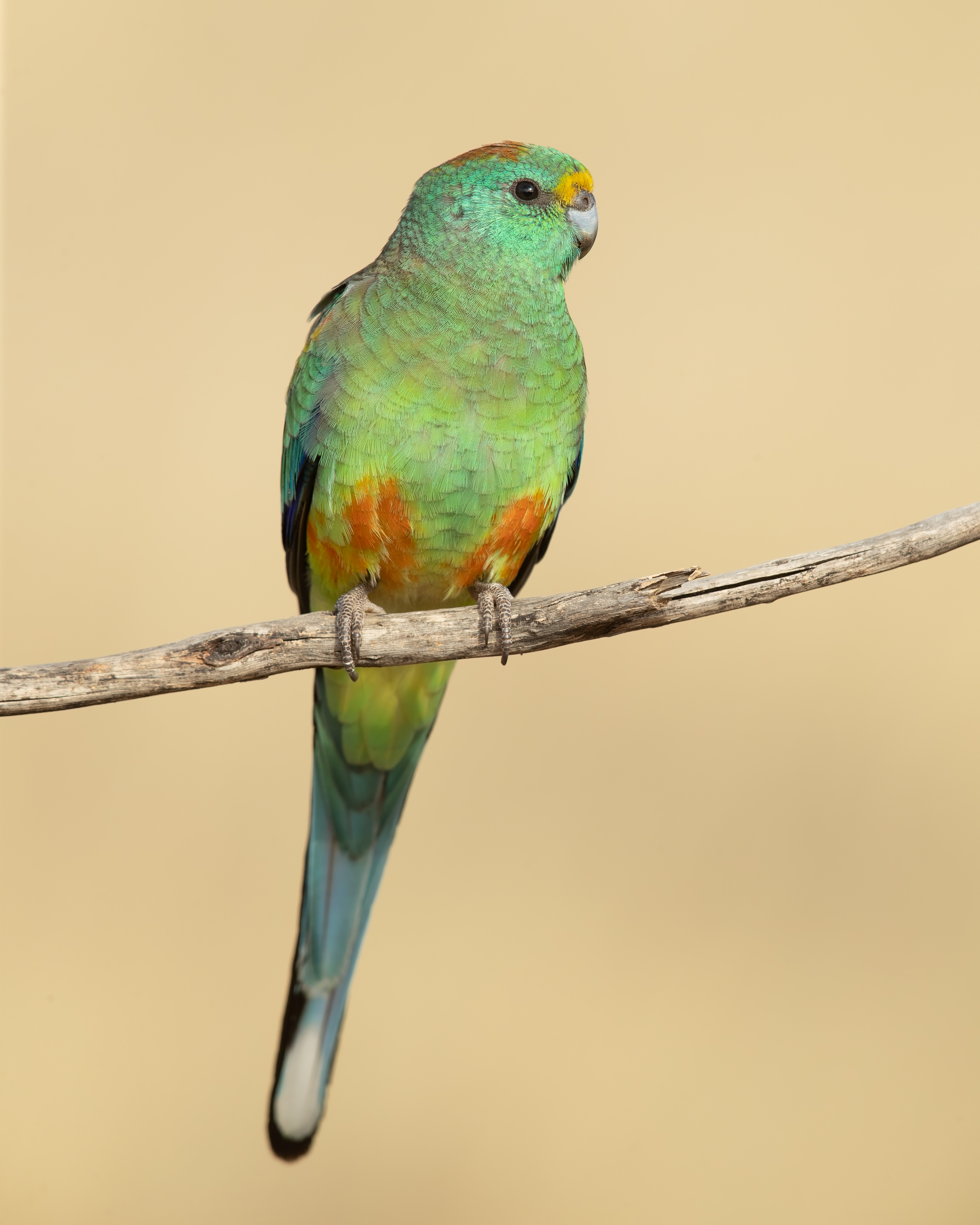 Mulga Parrot (Psephotellus varius), Patchewollock Conservation Reserve, Victoria, Australia